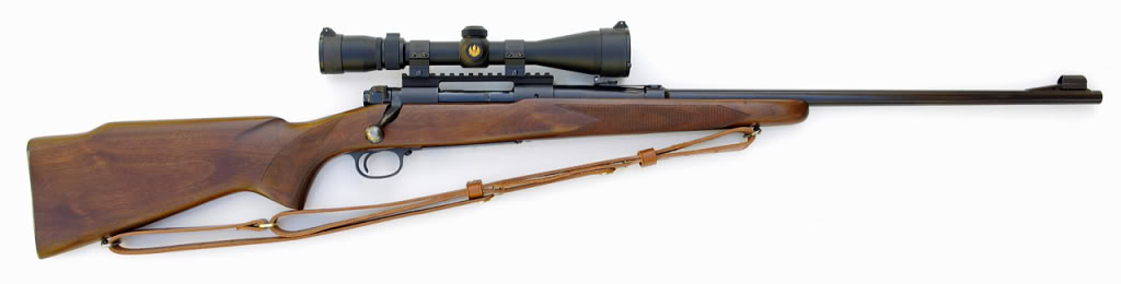 This is a photo of a pre-1964 Winchester Model 70 rifle.